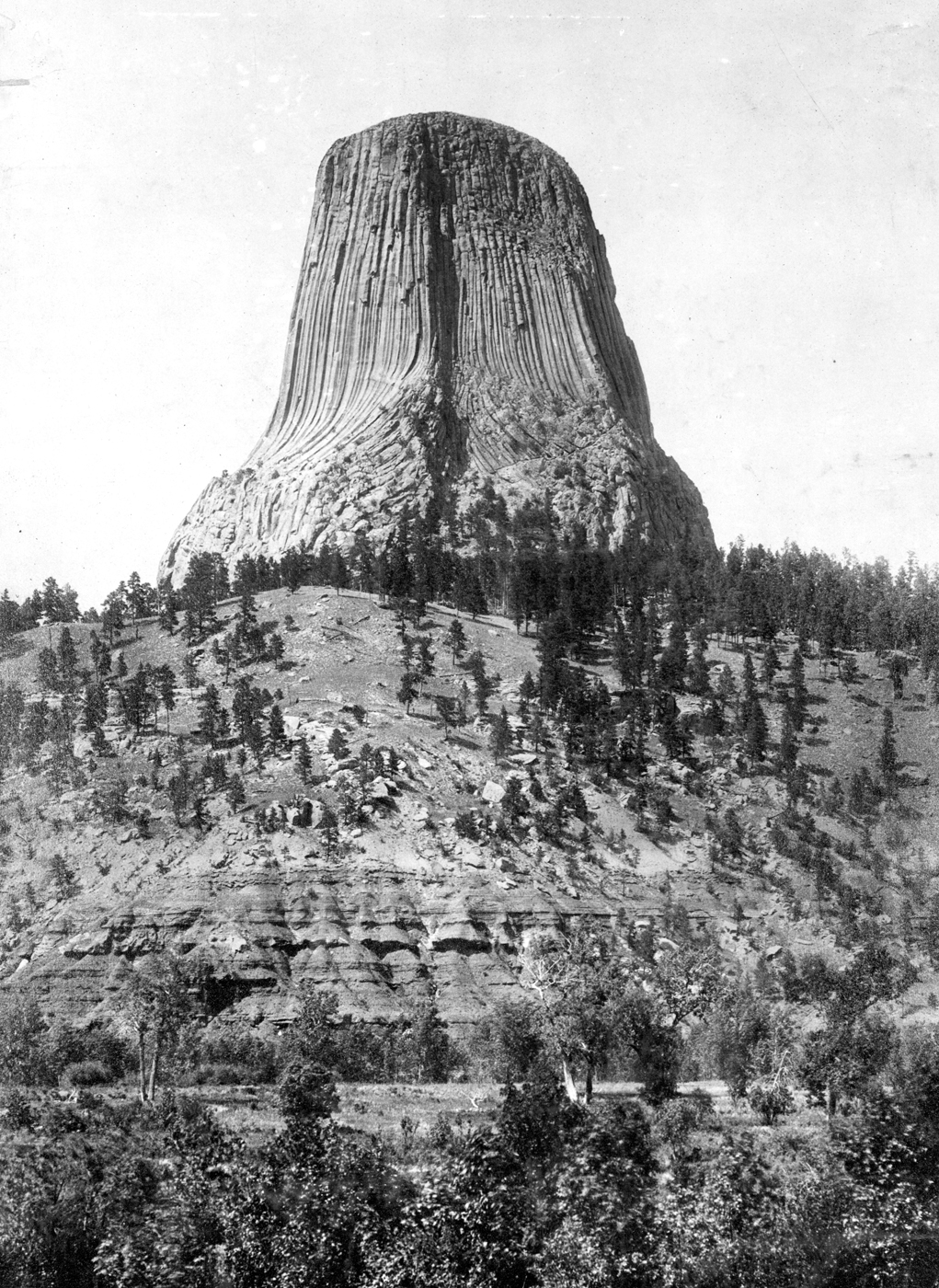 Devils Tower, on west bank of Belle Fourche River, south of Hulett. Crook Wyoming. Circa 1900. Plate 17, as Ives Three Color Process, in U.S. Geological Survey. Professional paper 32. 1905, figure 1 in U.S. Geological Survey. Folio 150. 1907.